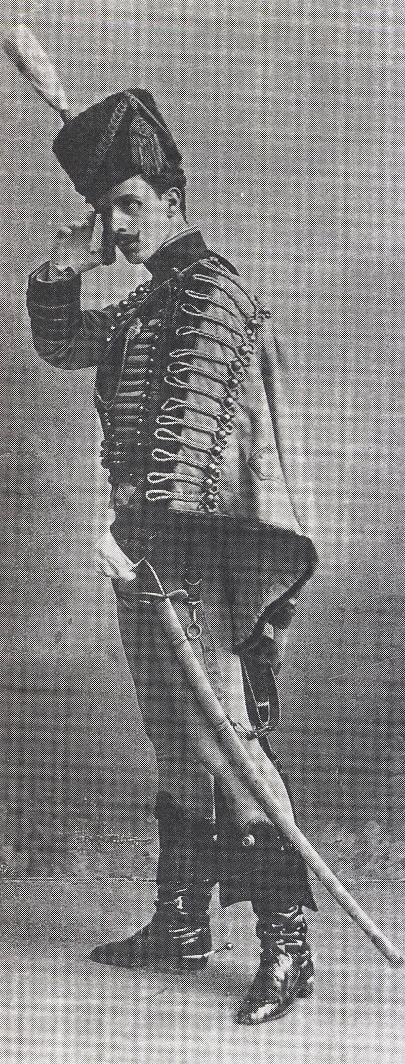 Michel Fokine as the hussar in Halte de Cavalerie. Taken by an unknown photographer in St. Petersburg, Russia, ca. 1900.